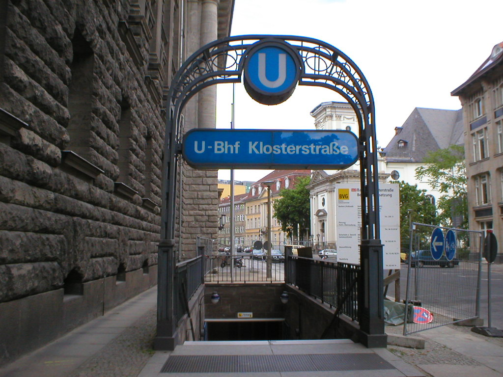 Entrance to the Berlin U-Bahn station Klosterstraße, line U2